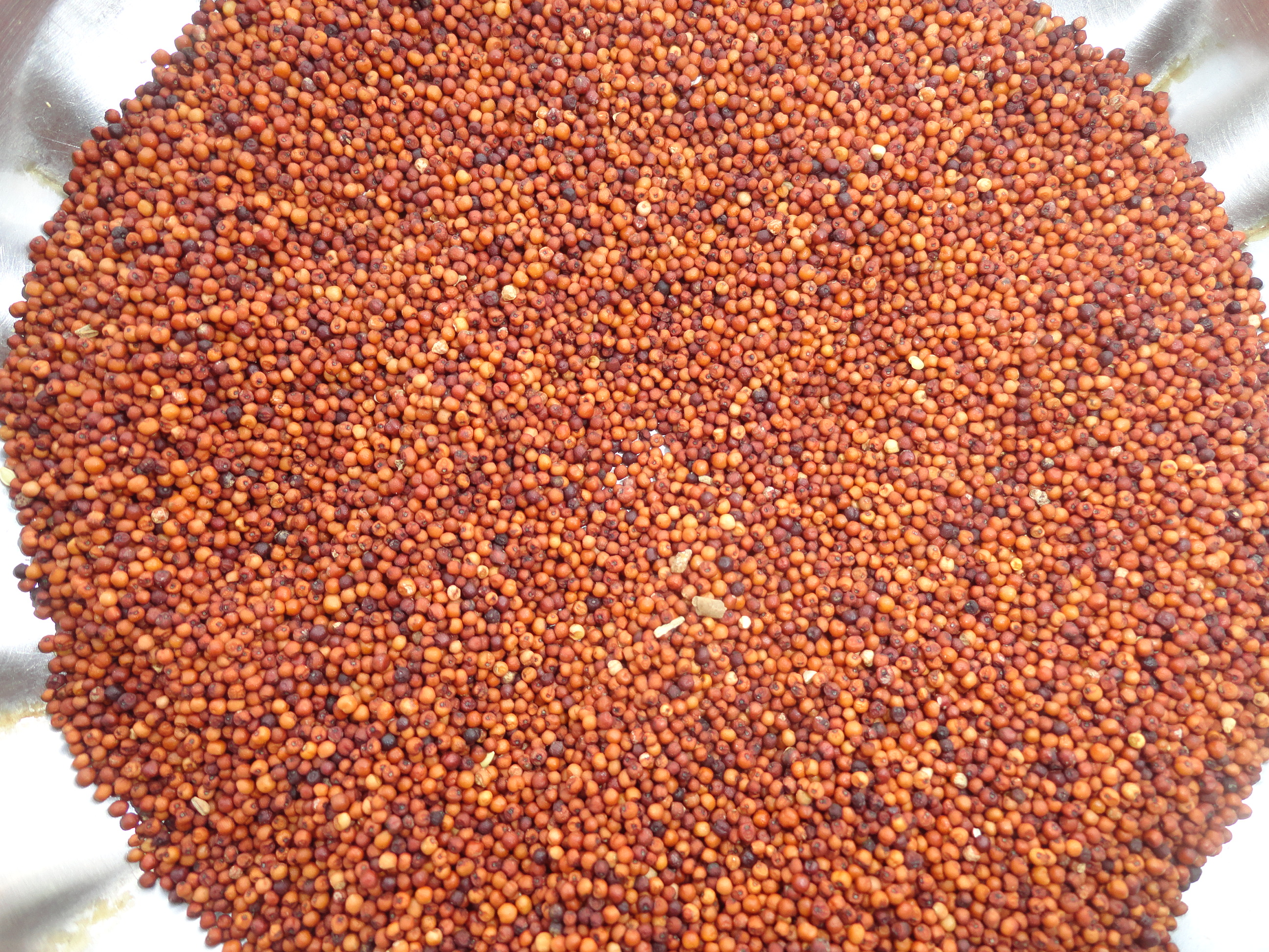 raagulu. one type of milletgs. my own work